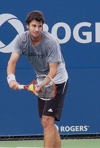 Mario Ancic at Toronto Masters in July 2008